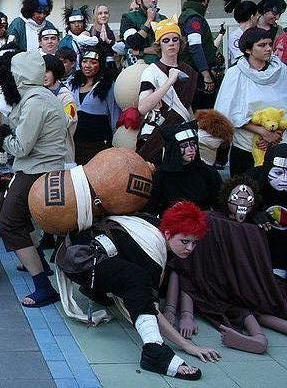 Naruto cosplay at Anime Expo 2006.